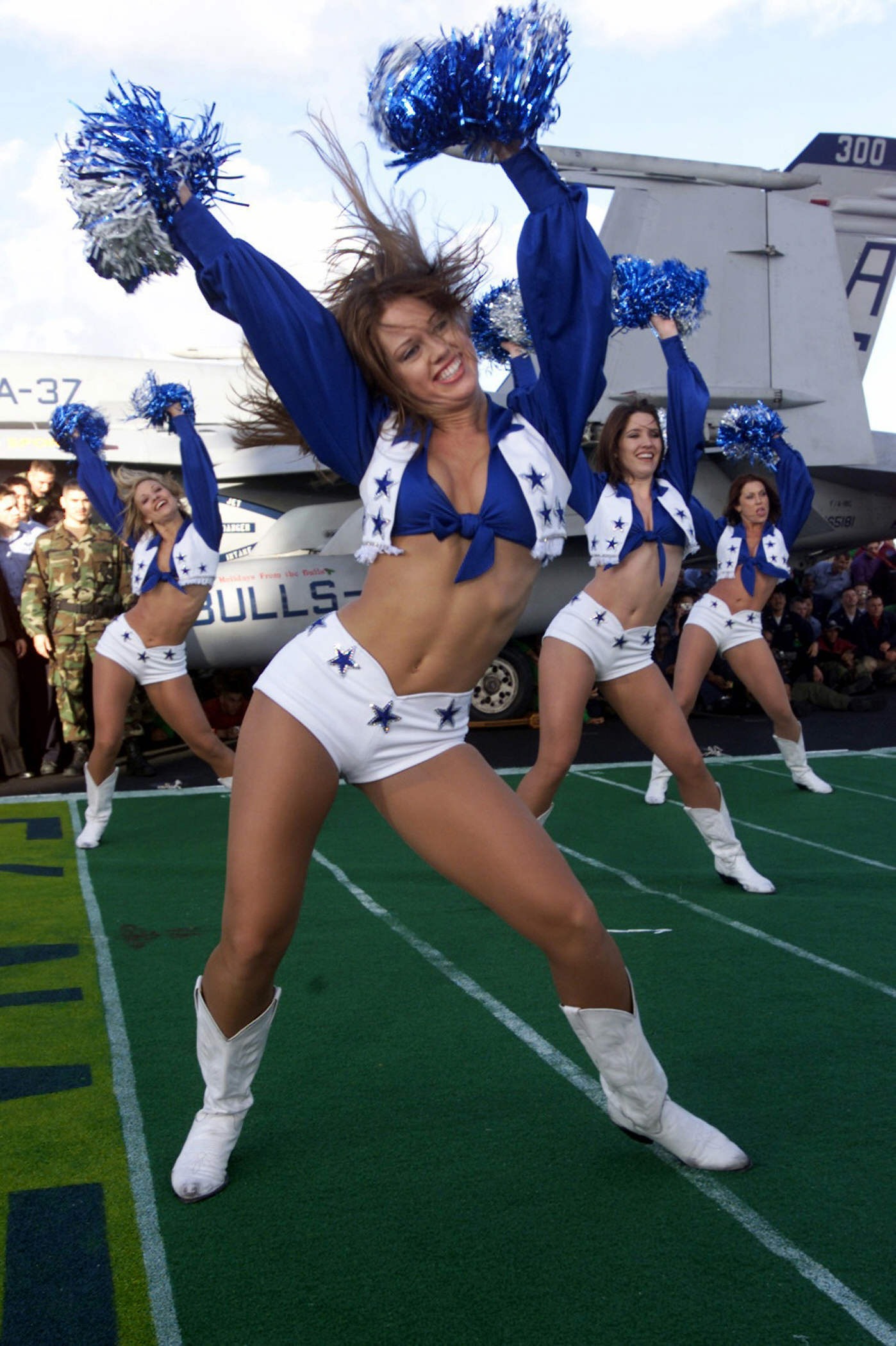 The Dallas Cowboys Cheerleaders perform on the flight deck for the crew of USS Harry S Truman (CVN 75) during the taping of the FOX NFL Pregame Show . Truman is on its maiden six-month deployment to the Mediterranean Sea and Persian Gulf.